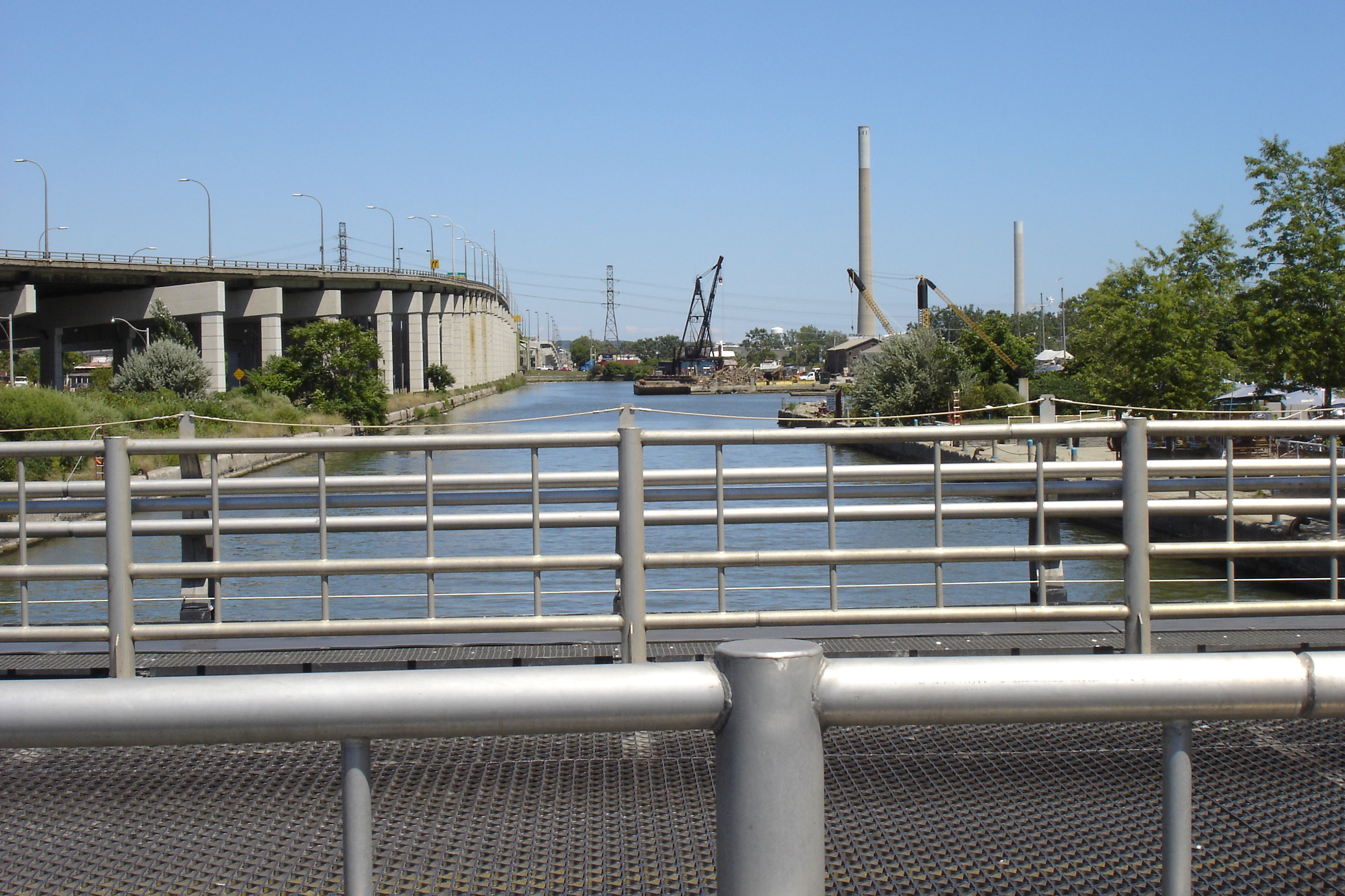 Shipping channel at the foot of the Don River, Toronto. This view is looking east from the channel's exit into Lake Ontario at Cherry St., the Don's entrance into the channel can just be made out at the "far end". The channel ends about 10 meters behind the camera's point of view. The elevated hiway is the Gardiner Expressway. The channel is to be naturalized as part of the redevelopment of Toronto's waterfront.